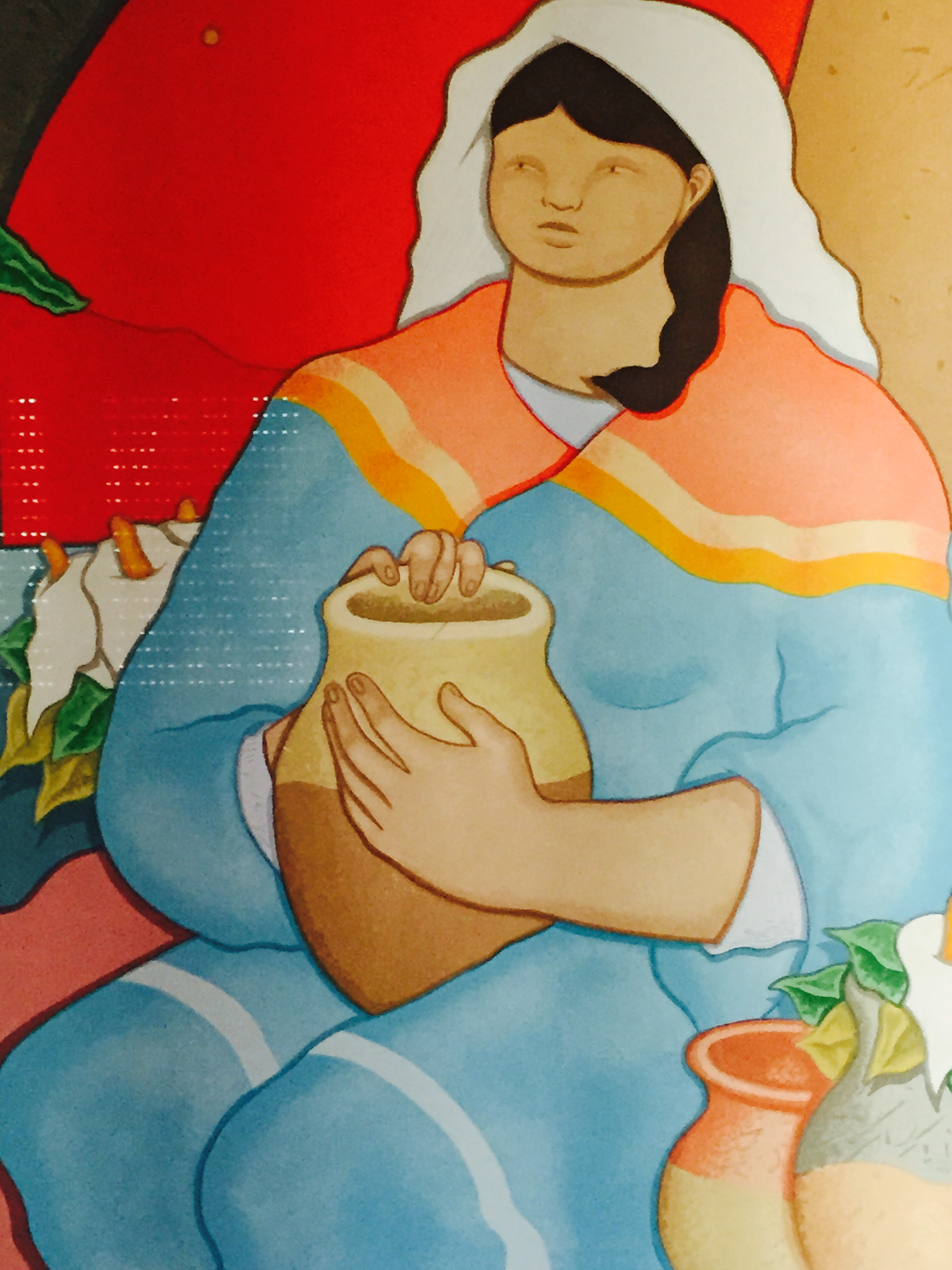 Women with Flowers